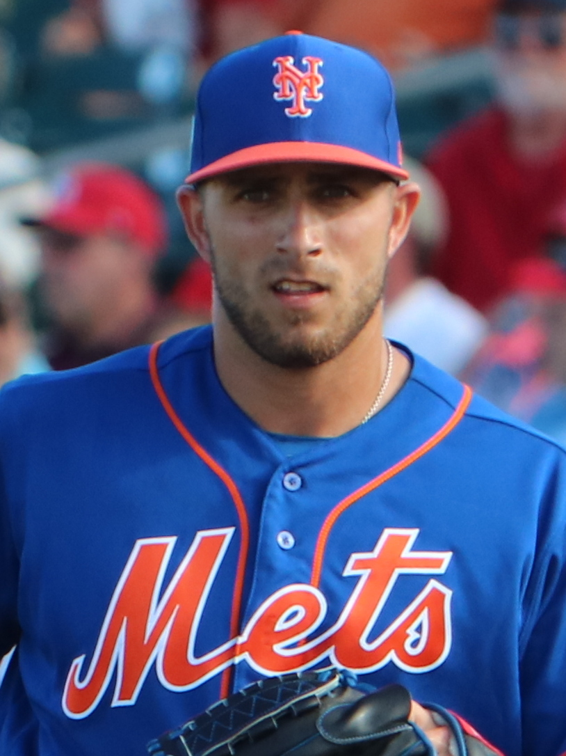 Tyler Bashlor on the mound, March 3, 2019